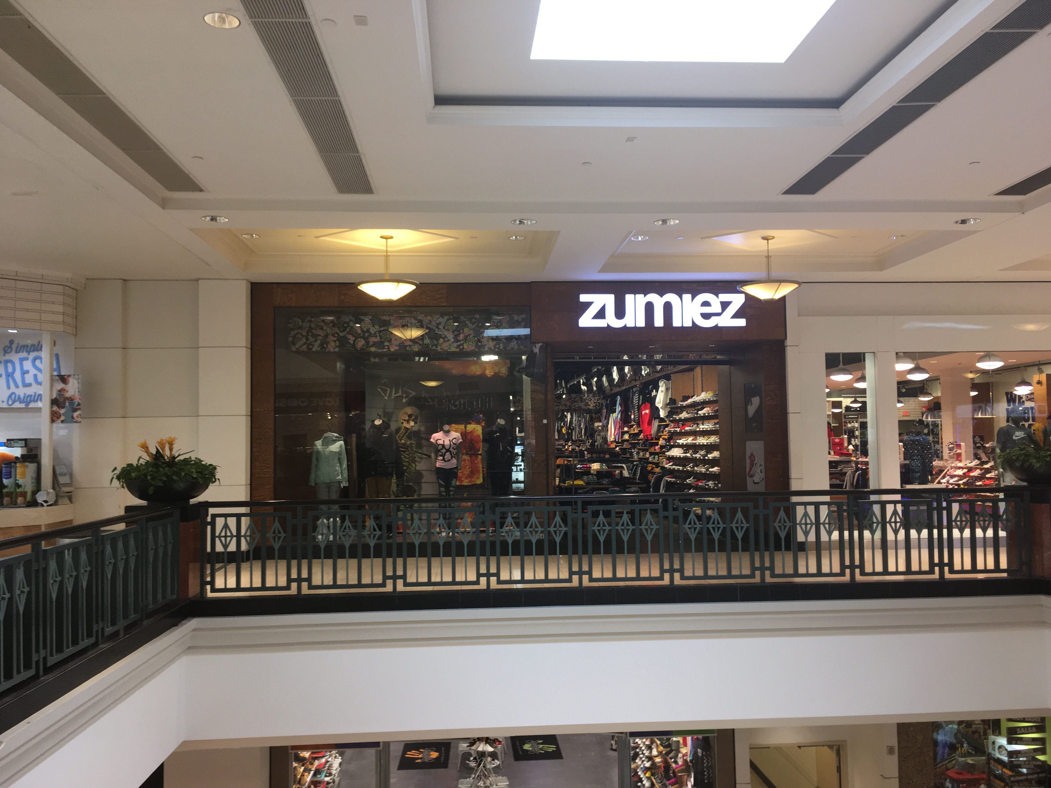 The Zumiez store in the King of Prussia Mall in King of Prussia, Pennsylvania